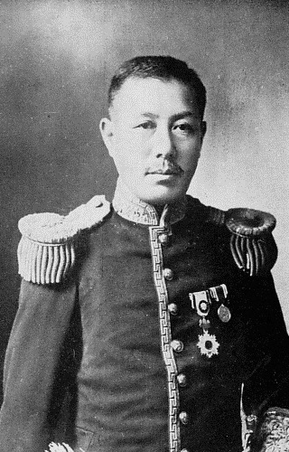 Nobumitsu Aoki (Viscount)